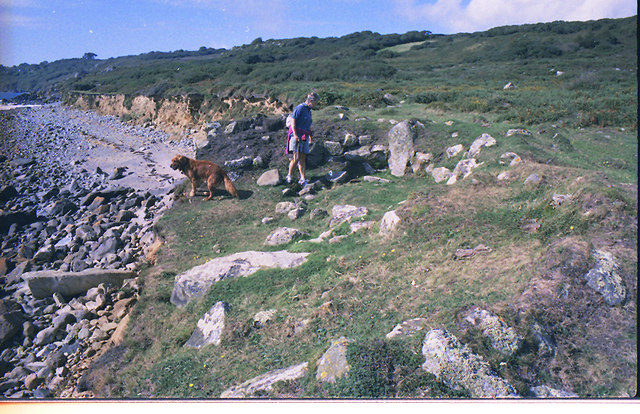 Trebarveth Salt Works, St Keverne, Lizard In medieval times sea water was boiled in stone troughs to extract salt. Remains of pottery in the form of "briquetage" can be seen eroding from the cliff side.